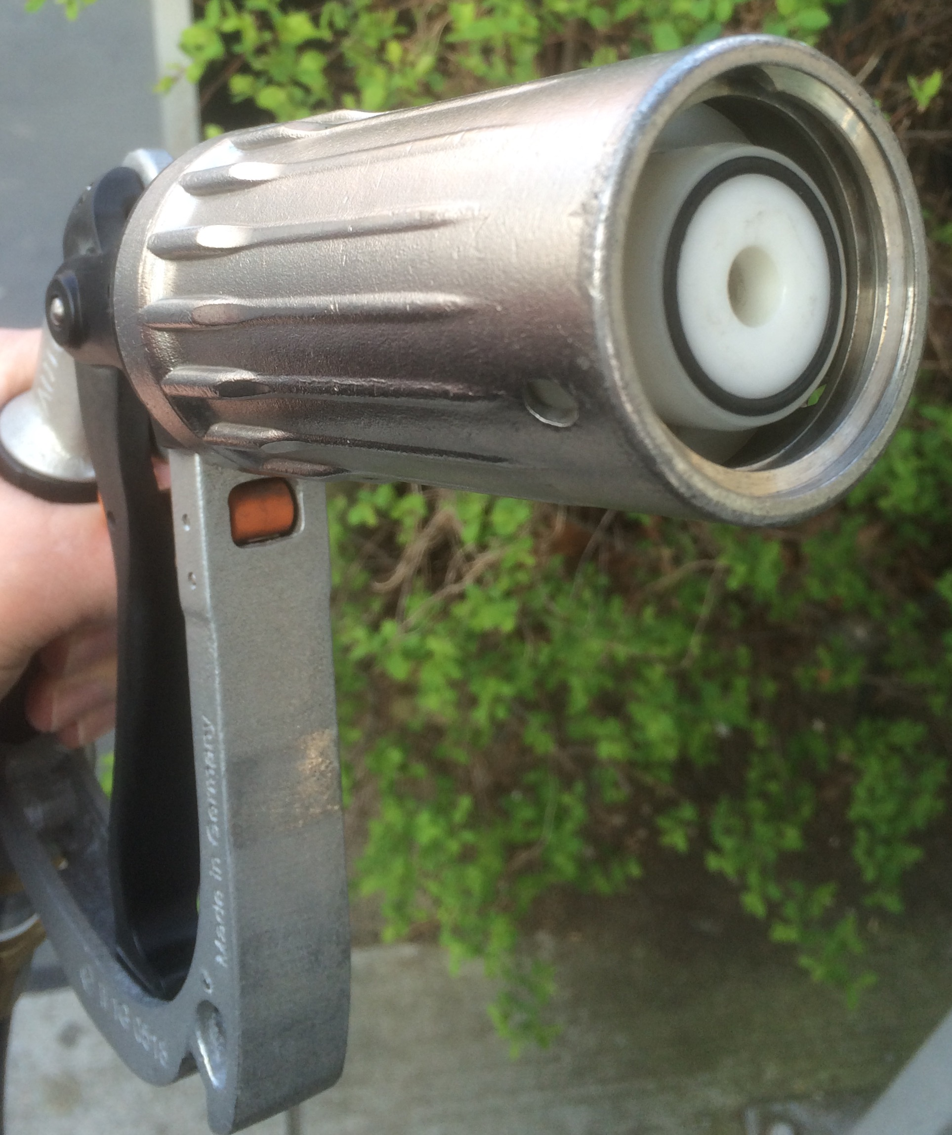 LPG Autogas ACME thread pump nozzle